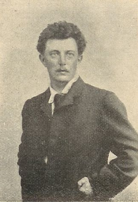 The painter Alfred Heinsohn